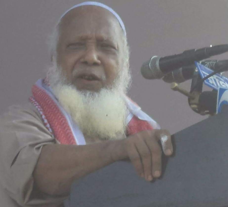 picture of Abdul Malek Halim